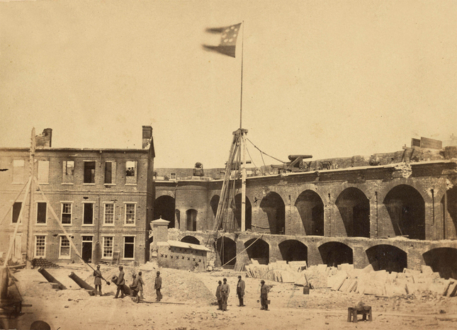 Confederate flag flying over Fort Sumter -- photo from 1861. Image is a detail from a stereoscopic photograph taken by Alma A. Pelot on the morning of April 15, 1861.